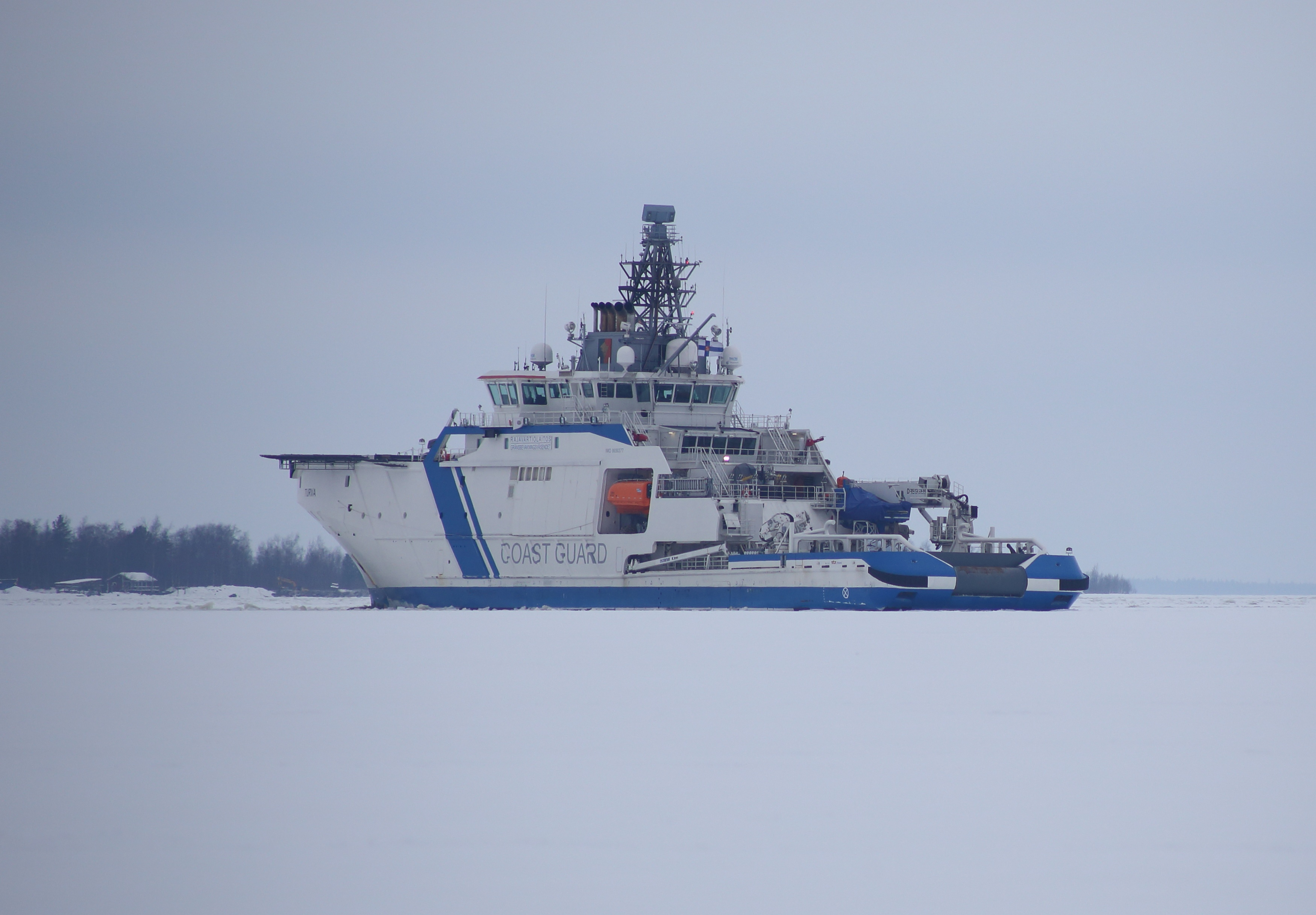 Finnish coast guard ship UVL Turva on the sea in front of the Virpiniemi coast guard station.